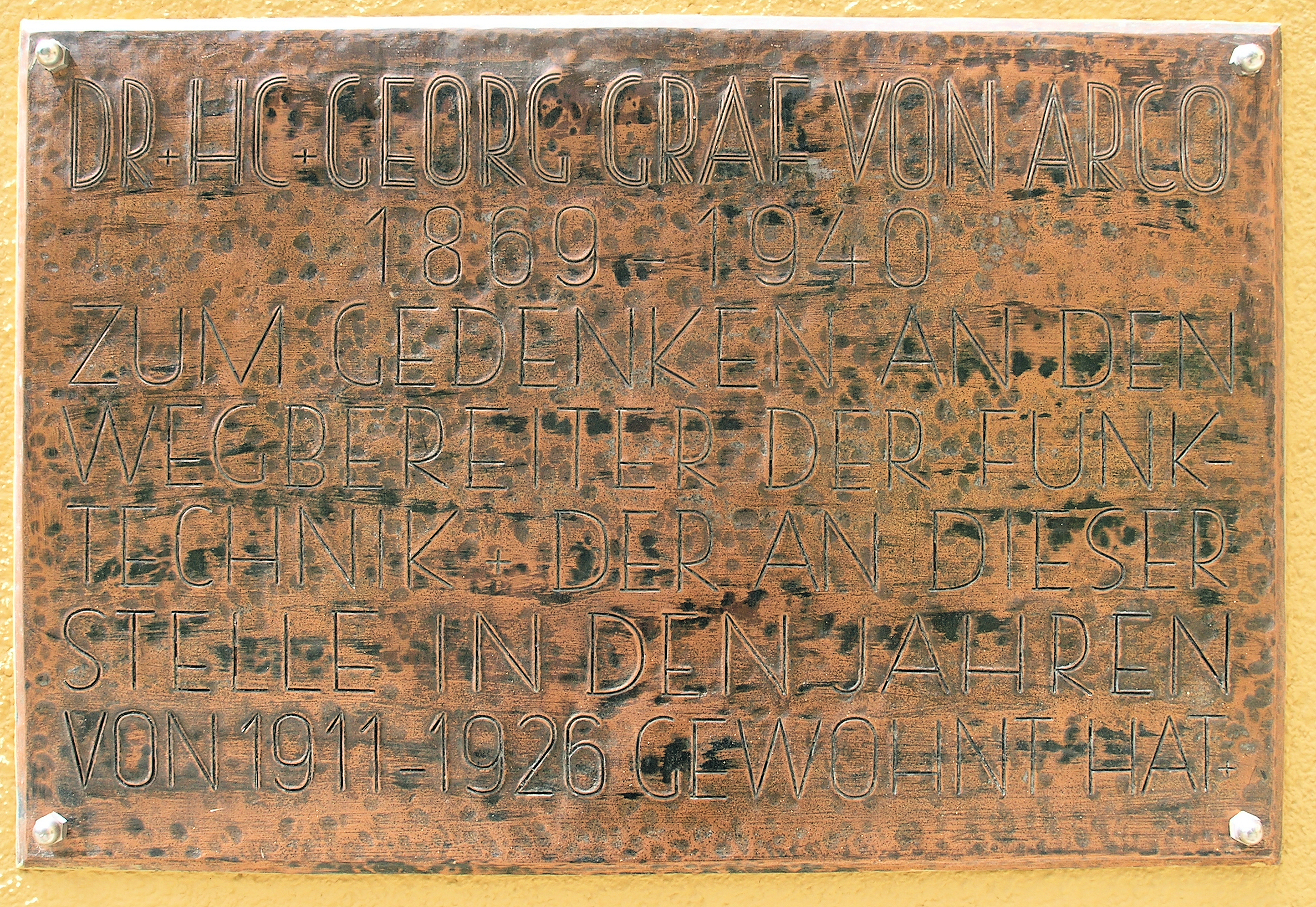 Memorial plaque, Georg Graf von Arco, Albrechtstraße 48-50, Berlin-Tempelhof, Germany Koordinate:52°27′40″N 13°23′0″E / 52.46111°N 13.383333°E